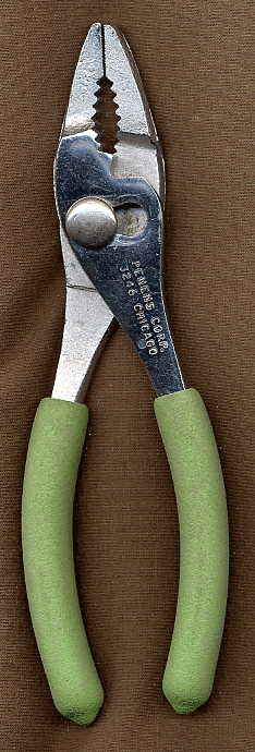 Slip joint pliers also called gas pliers